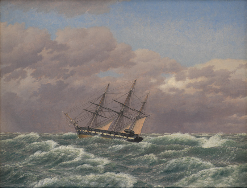 The Corvette "Galathea" in a Storm in the North Sea. Original painting at Statens Museum for Kunst